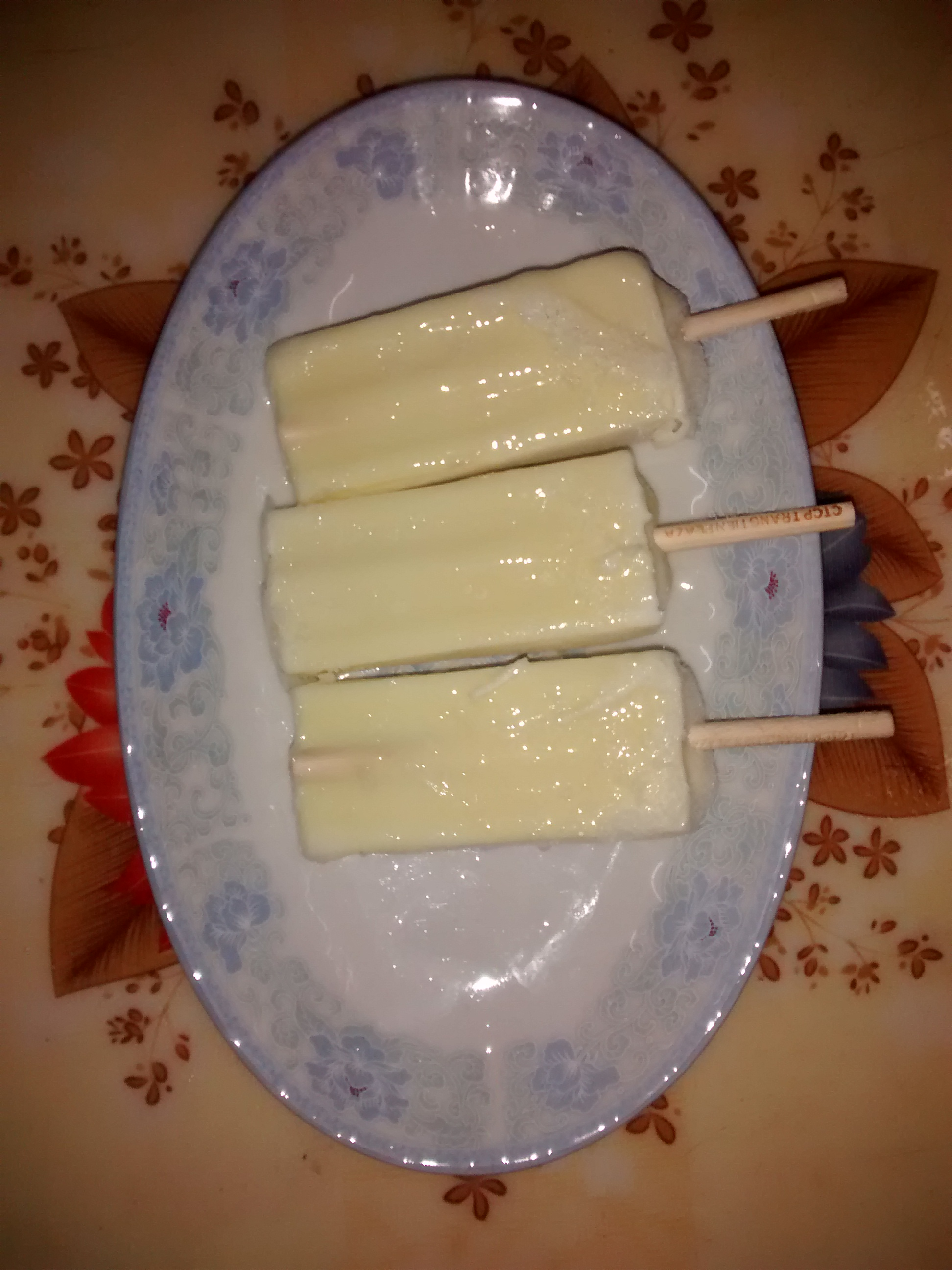 Trang Tien Icecream